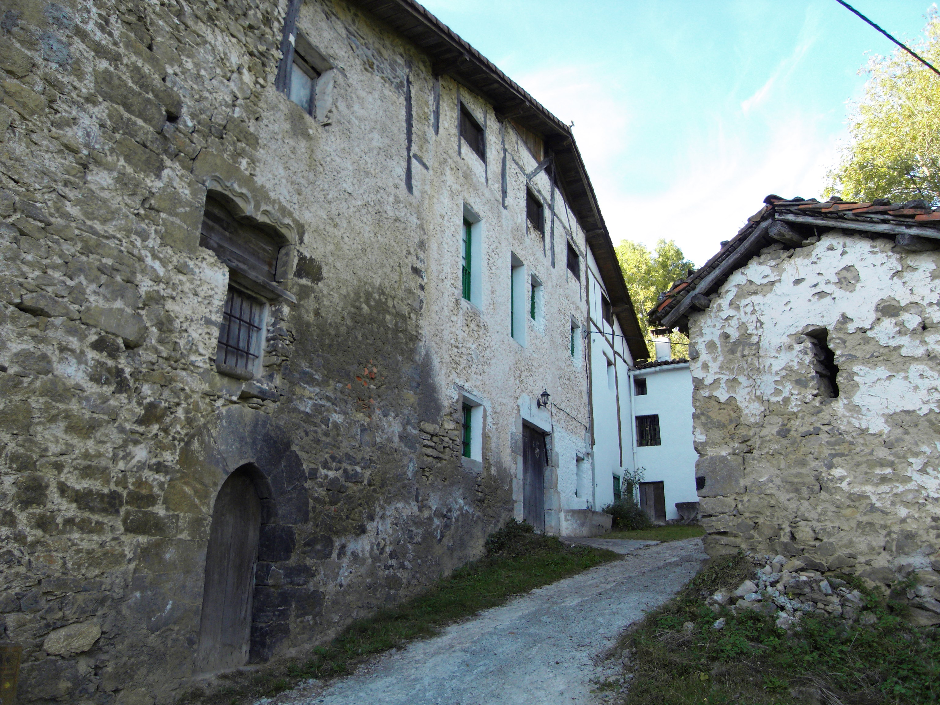 Santa Marina Haundi farm house, Albiztur (Guipuscoa, Basque Country)